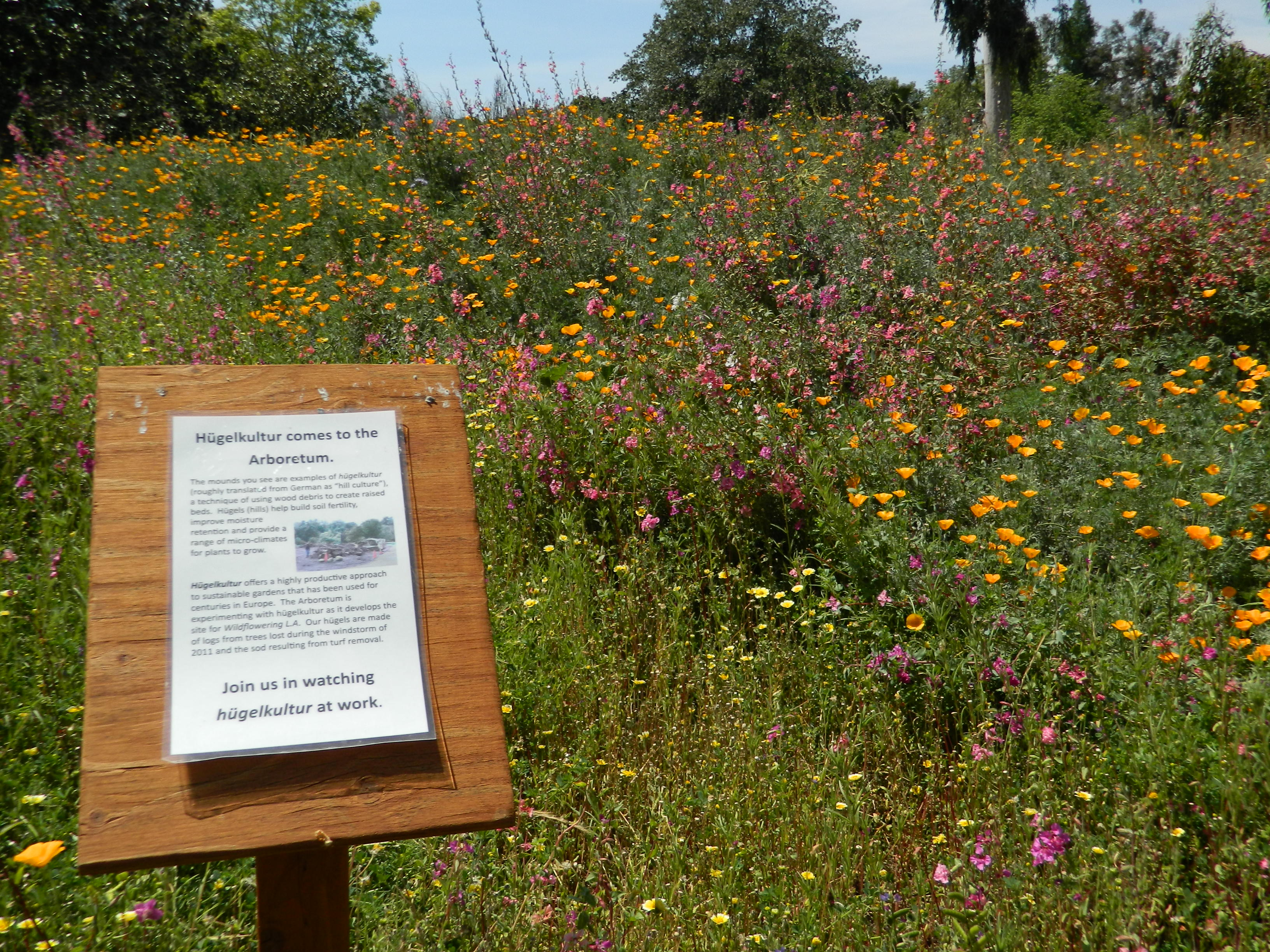 Hugelkultur bed with wildflower planting at Los Angeles County Arboretum in Arcadia, California